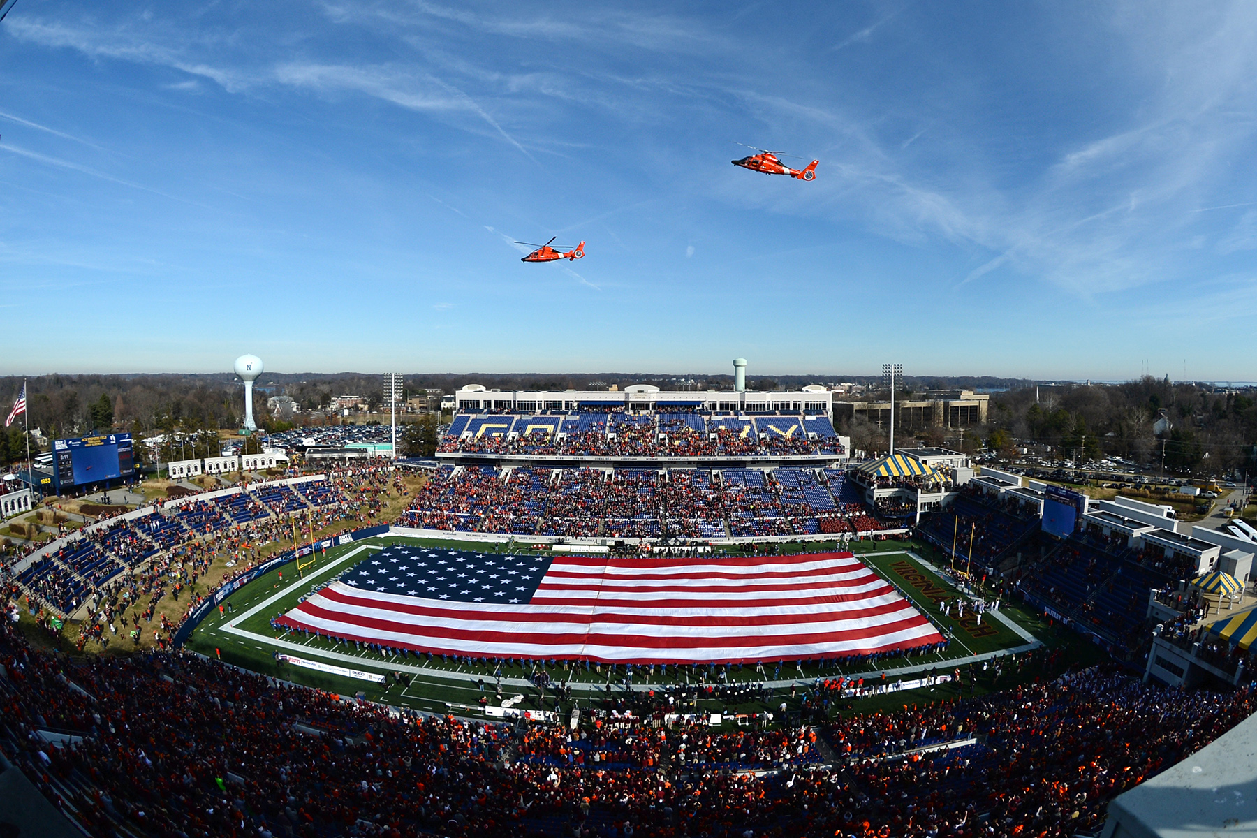 Coast Guard helicopters fly over Navy-Marine Corps Memorial Stadium at the start of the Military Bowl 2014 in Annapolis, Md. Dec. 27, 2014. Virginia Tech beat Cincinnati 33-17. (DoD News photo by EJ Hersom)